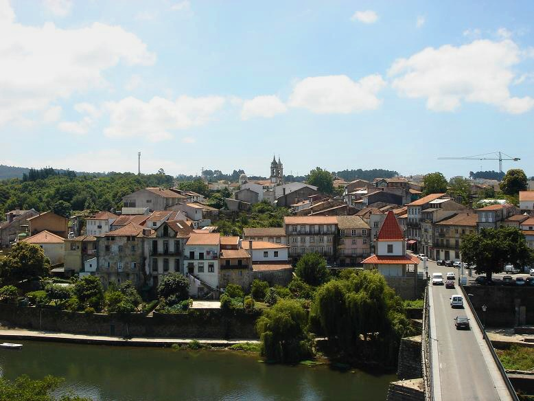 Barcelinhos.